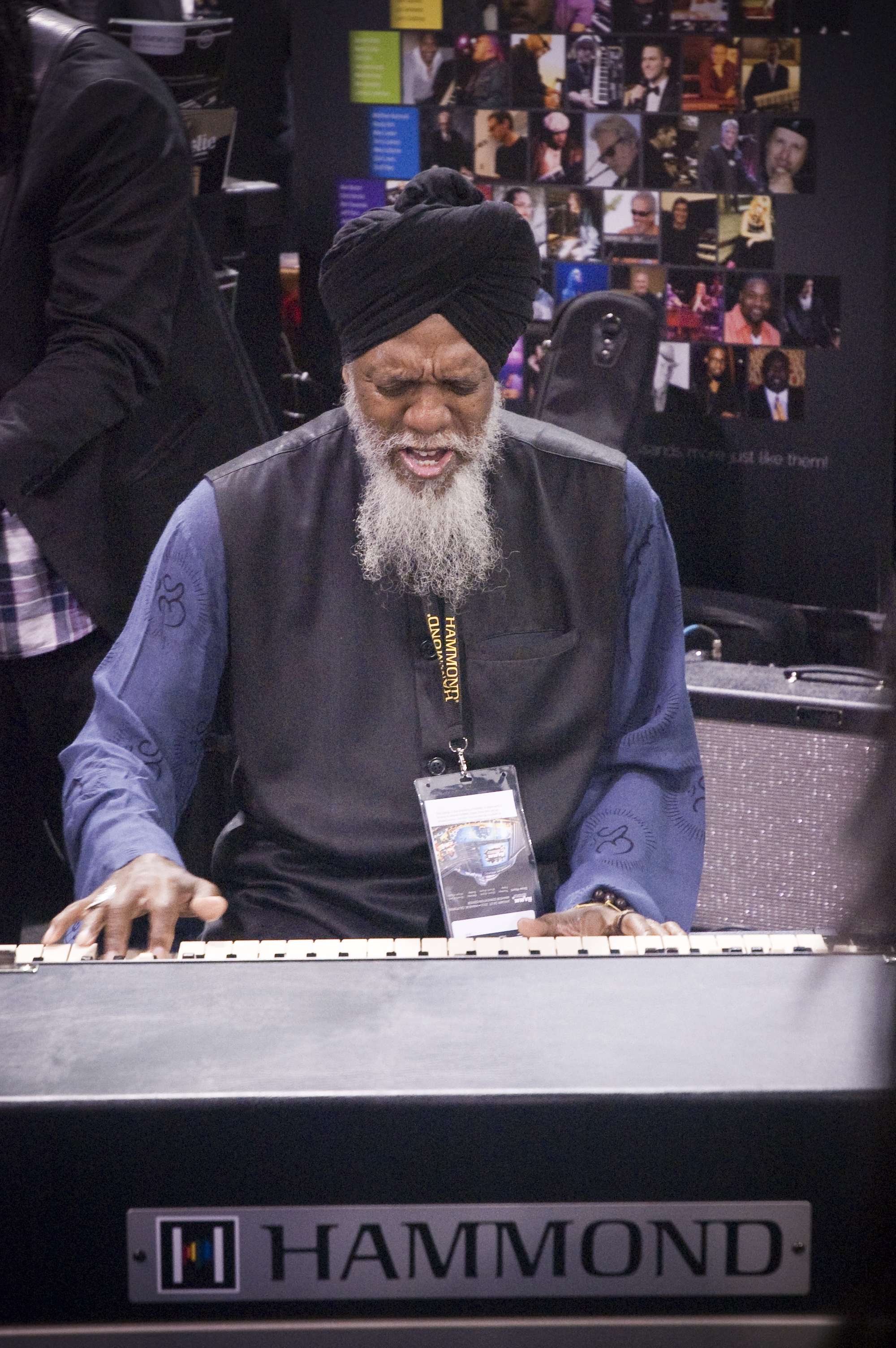 Dr. Lonnie Smith on Hammond, NAMM 2013